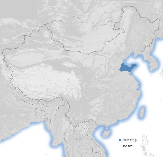 Map of State of Qi in 300 BC